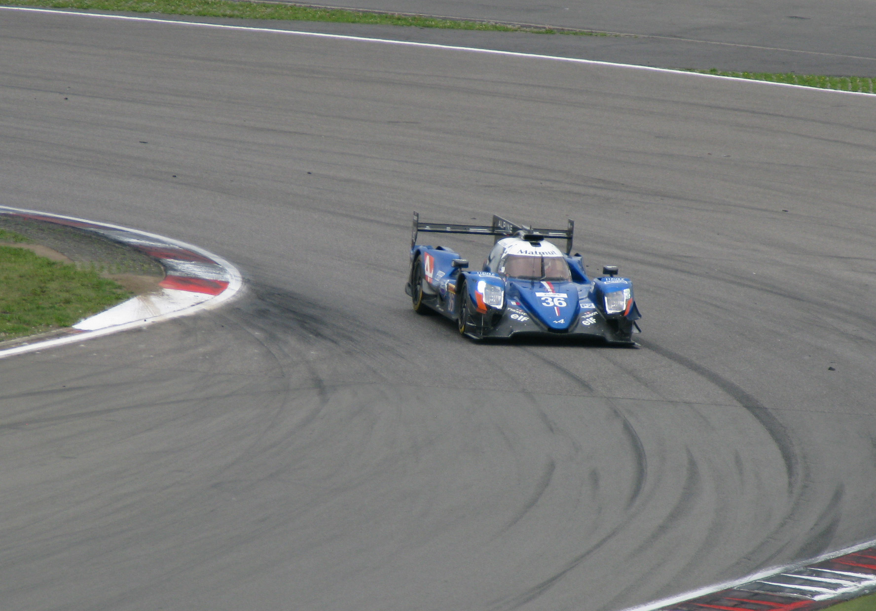 36 Alpine A470 of Signatech Alpine Matmut.